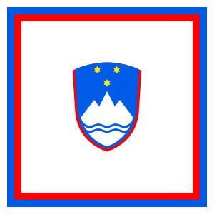 Flag of the President of the Republic of Slovenia